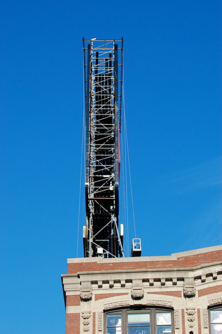 An admittedly bizarre picture showing the inner steel skeleton which supports the Citgo Sign in Kenmore Square, Boston, MA. Also visible are some guy wires which aren't noticeable from more common angles. Taken from across Commonwealth Avenue.